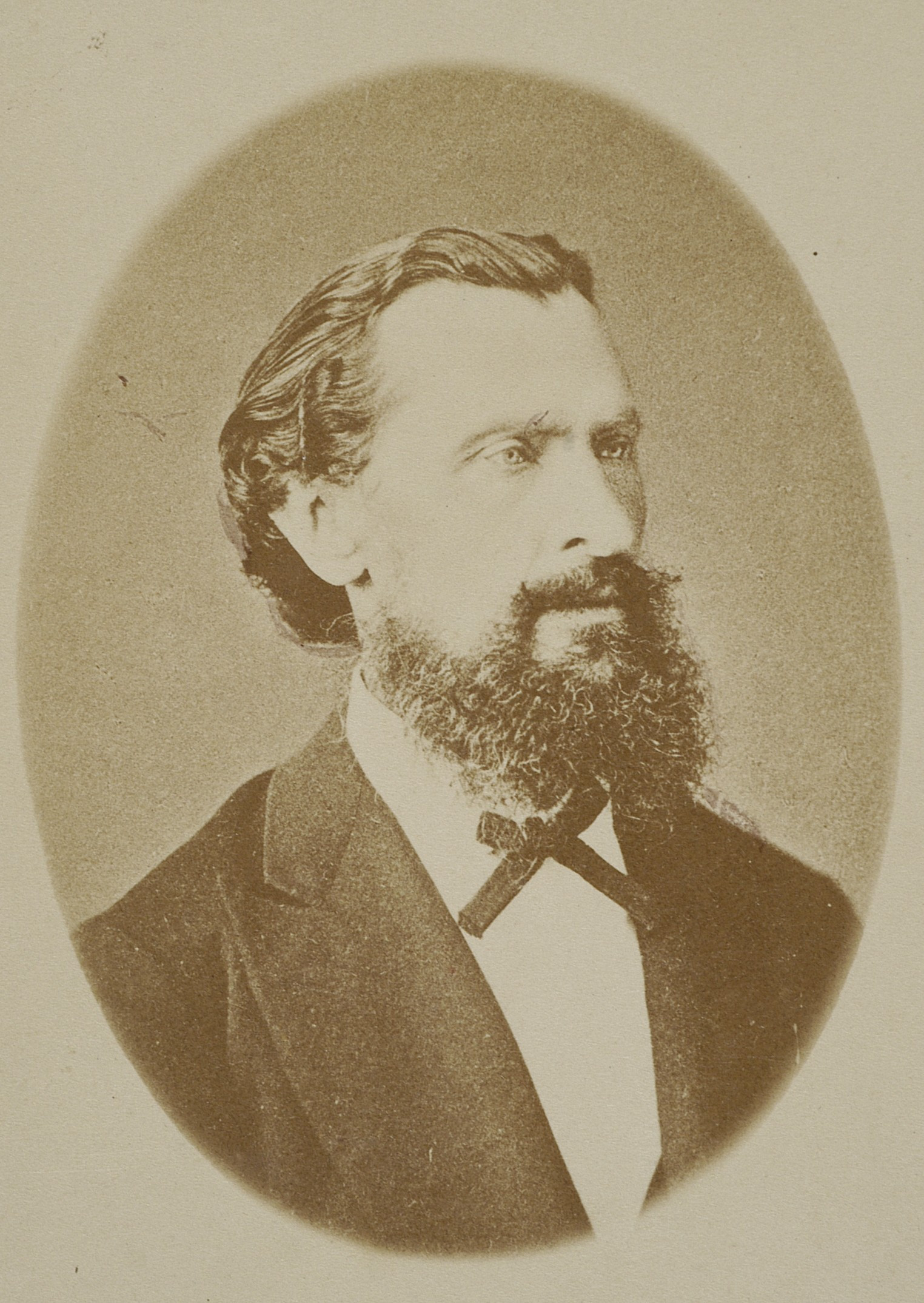 Jozafat Ohryzko, przed 1890 r.